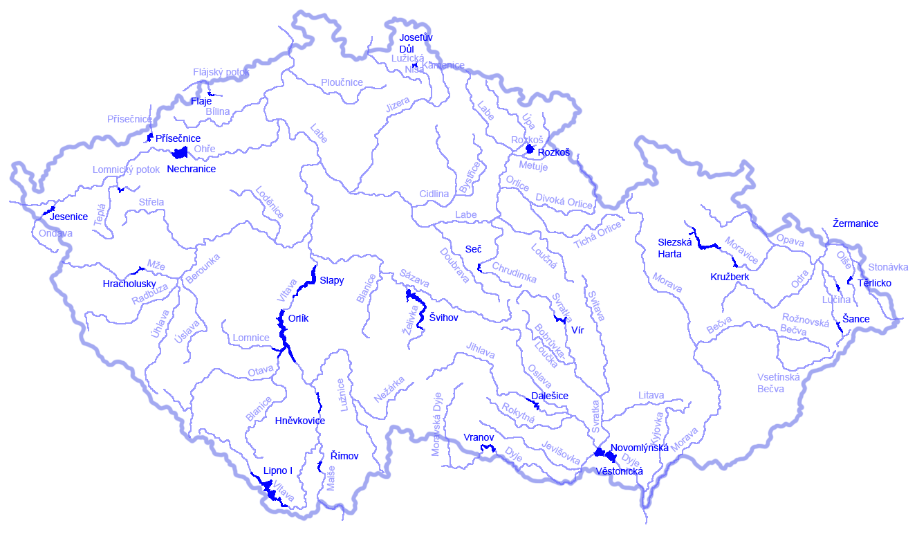 Map of the 25 biggest reservoirs (by water volume) in the Czech Republic